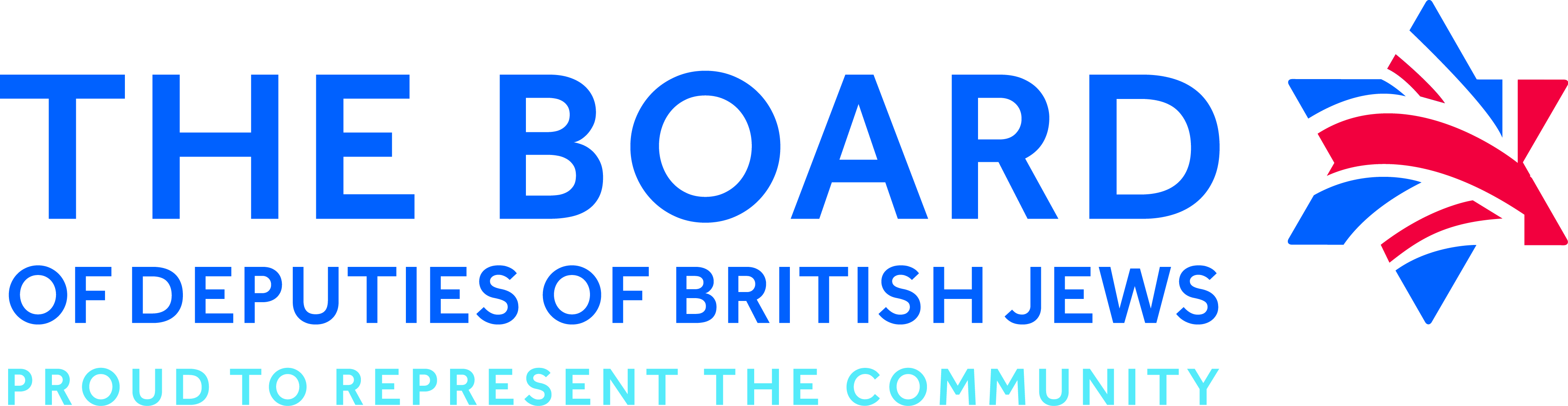 The Board of Deputies of British Jews